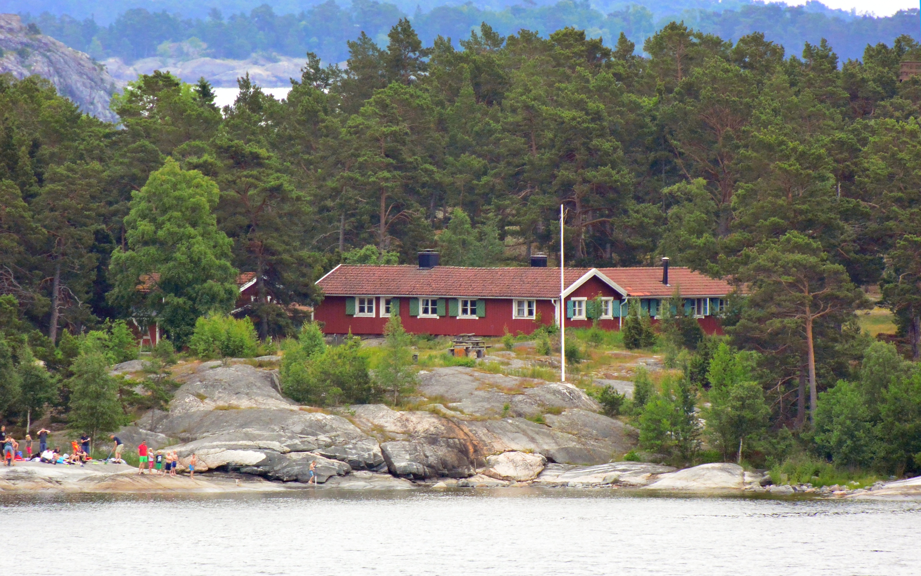 The hostel at Rögrund in Stockholm archipelago, Sweden.